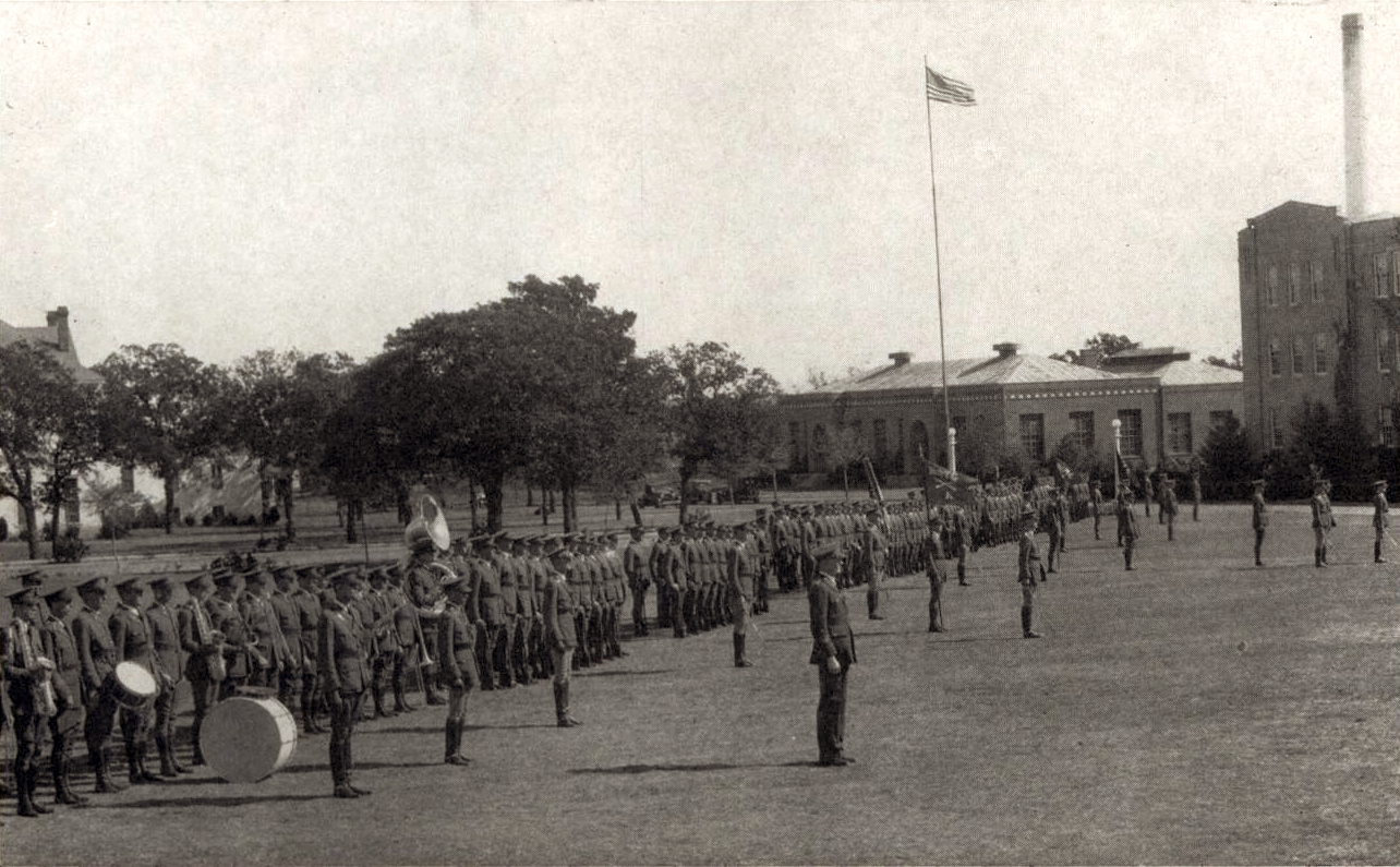 Cadets at North Texas Agriculture College